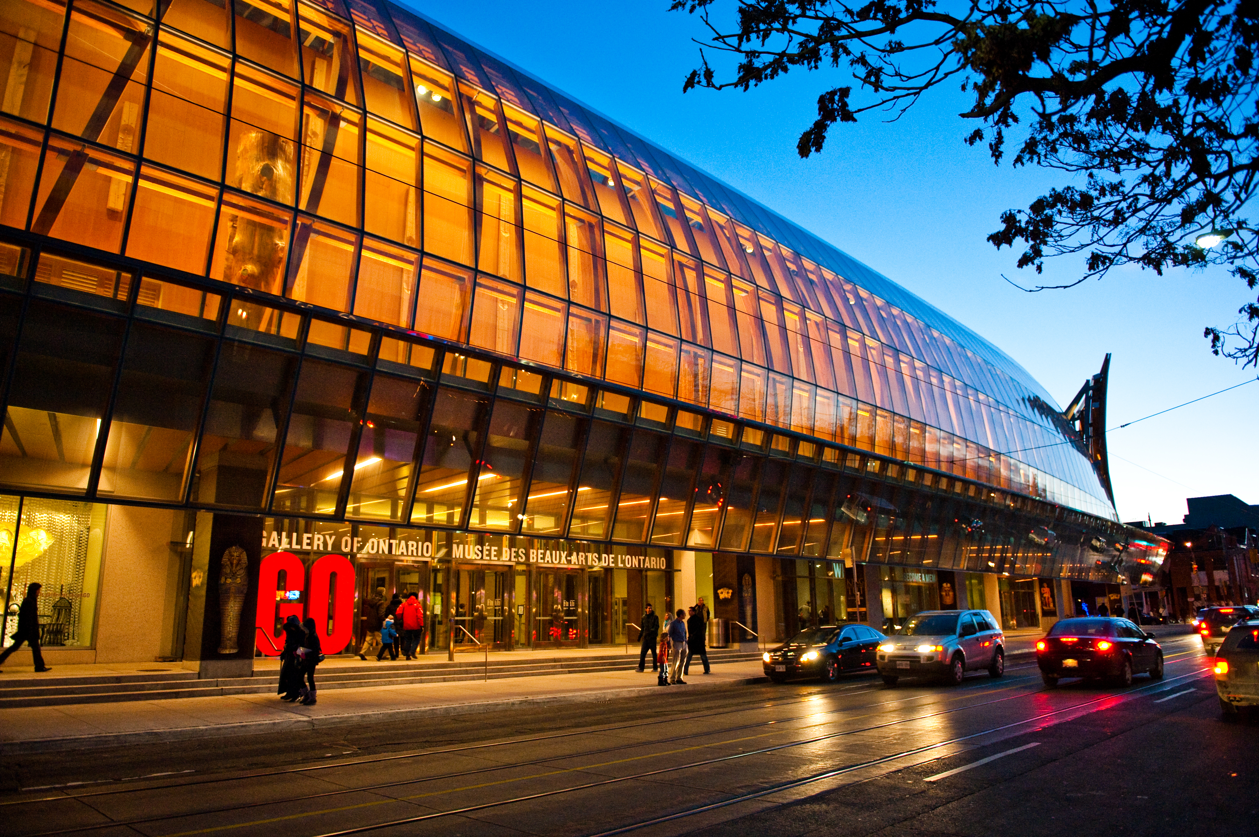 Art Gallery of Ontario at dusk. Toronto, Ontario, Canada.